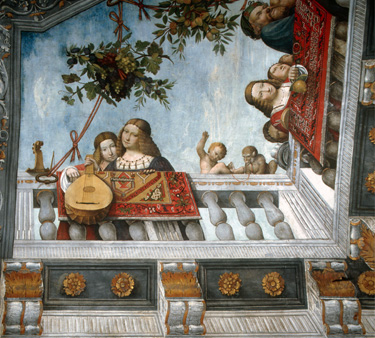 Ferrara, Palazzo Costabili. Detail of the Treasure Room by Garofalo